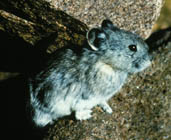 Collared pika (Ochotona collaris)